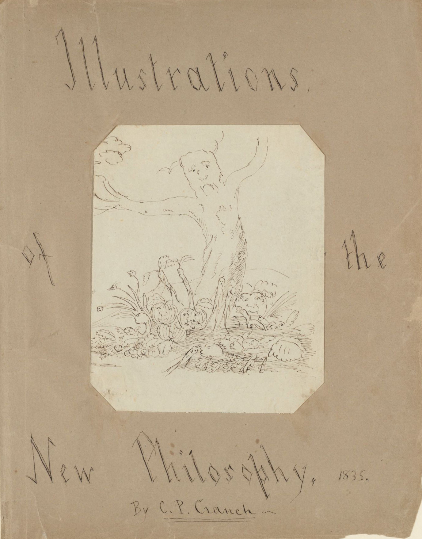 Mock title page by Christopher Pearse Cranch (1813-1892). Illustrations ca. 1837-1839, collected in 1844 by James Freeman Clarke and erroneously dated 1835. Christopher Pearse Cranch illustrations of the New Philosophy (MS Am 1506), Houghton Library, Harvard University